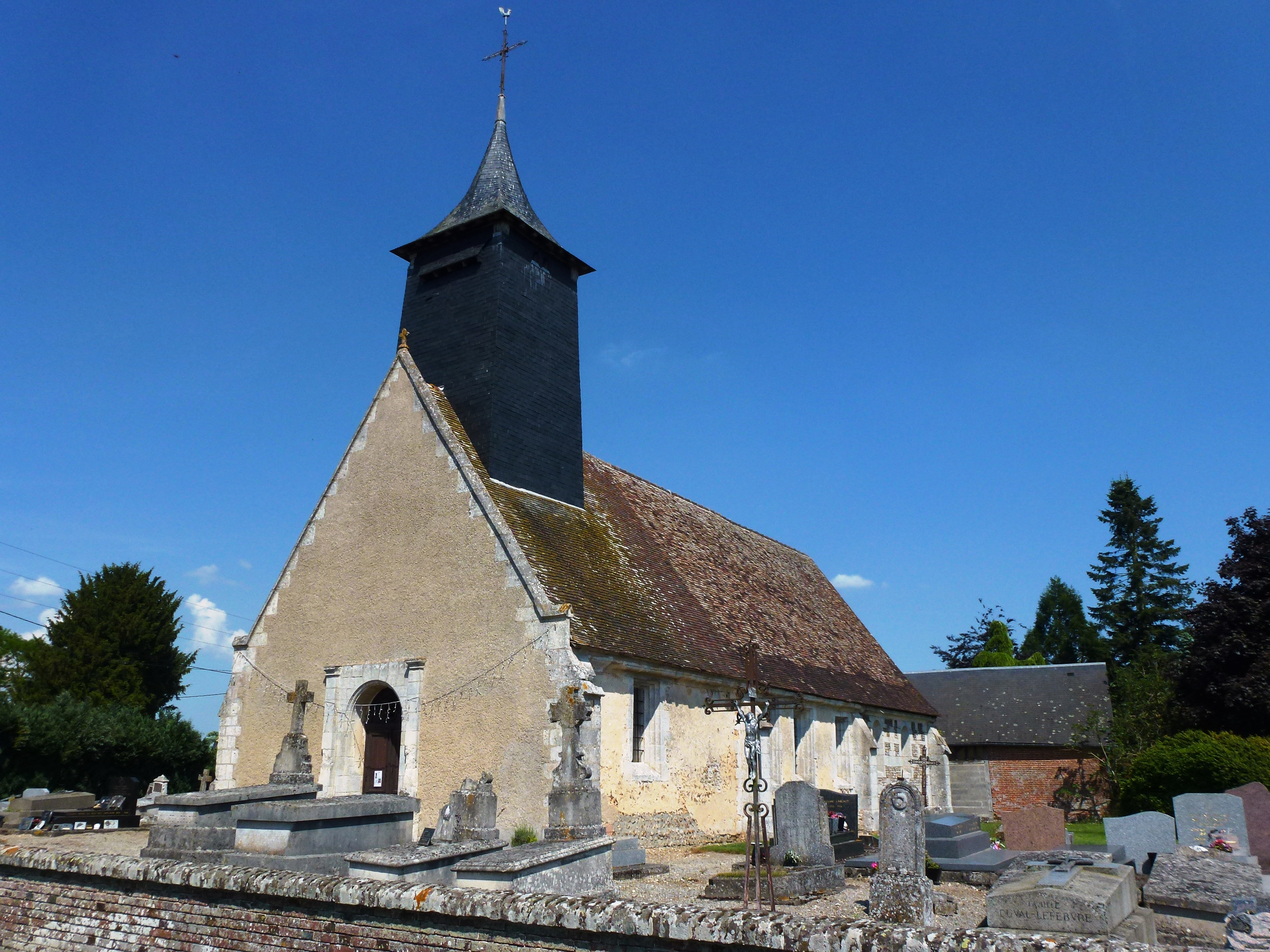 Collandres-Quincarnon (Eure, Fr) église Notre-Dame de Collandres